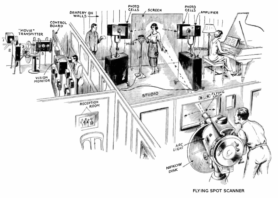 Drawing of an early television studio in the 1930s using mechanical flying spot scanner television cameras, owned by the Jenkins Television Co. During the 1920s and 30s, before modern electronic-scanning television systems debuted around 1940, dozens of experimental stations broadcast television programs using mechanical scanning technology. Instead of a television camera that recorded an image, a powerful light source called a "flying spot scanner" (bottom) projects a moving spot of intense light onto the subject (top) in the darkened studio. A spinning disk in the scanner pierced with small holes, called a Nipkow disk, scans the light beam across the subject in a raster pattern. The light reflected off the subject by the spot is picked up by banks of photo cells near the subject. The photo cells produce a varying signal proportional to the brightness of the spot on the subject where the beam strikes. This becomes the video signal broadcast by the transmitter (left). To the left is also visible a television movie projection camera, used for broadcasting movies from film. Alterations to image: Added label "NIPKOW DISK" to flying spot scanner, and "PHOTO CELLS" to second bank of photocells that weren't labelled.